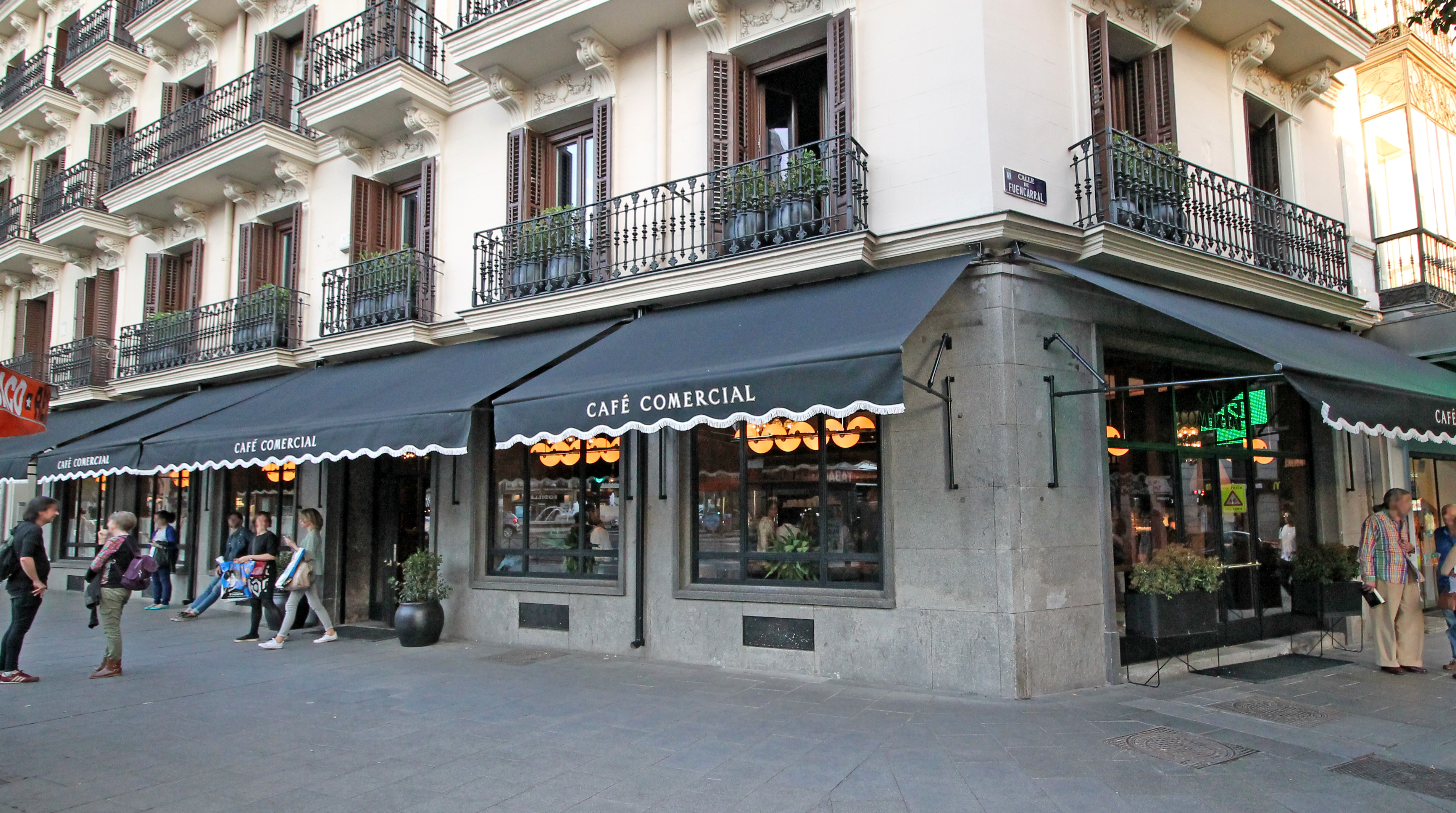 Façade of Café Comercial in Madrid (Spain).